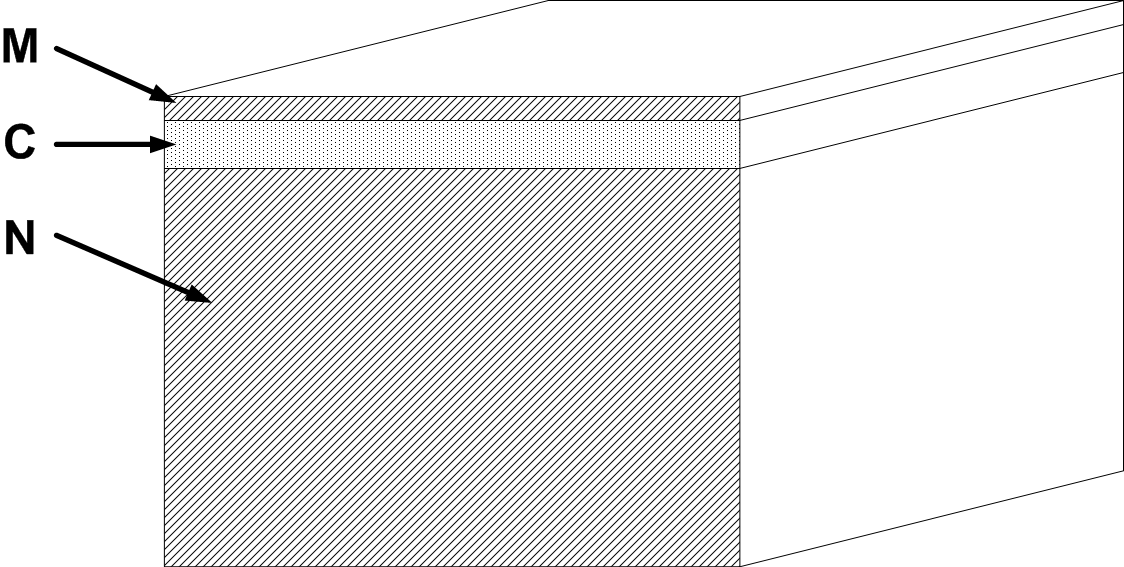 Gurney equations explosives engineering diagram for infinitely tamped sandwich configuration. M is mass of flyer plate, C is mass of explosive charge, N is (infinite) mass of tamper